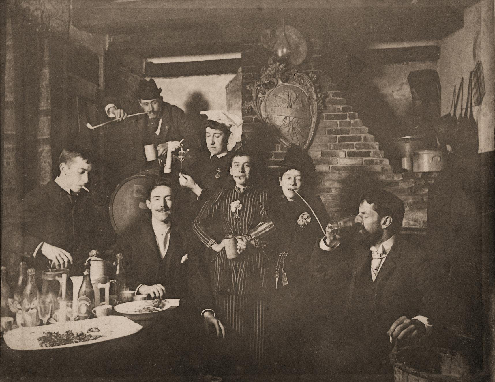 Early Providence Art Club members relax in the Cabaret Room (the old kitchen) at the club, on Thomas Street, circa 1890. Sydney Burleigh (right) built the Fleur-de-Lis building on Thomas Street, which the club now owns.